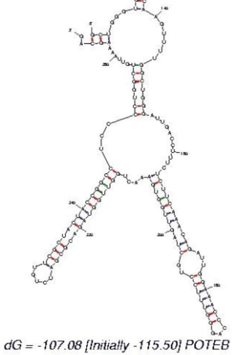 This image shows the predicted structure of POTEB mRNA as a stem loop.